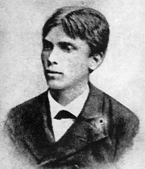 Hubert Gordon Schauer (1862–1892), a Czech philosopher and literary critic